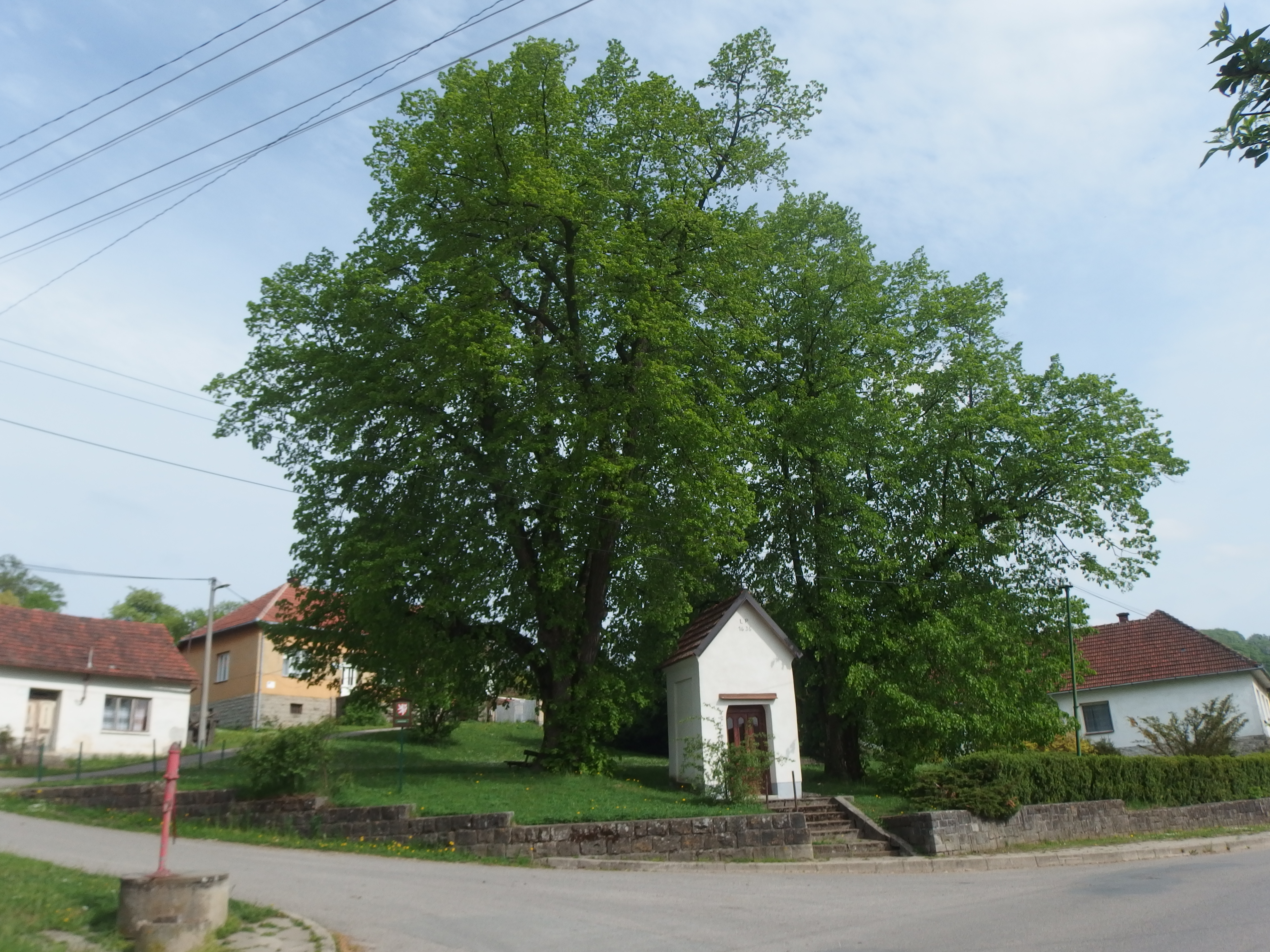 Bojkovice in Uherské Hradiště District, Czech Republic, part Bzová.